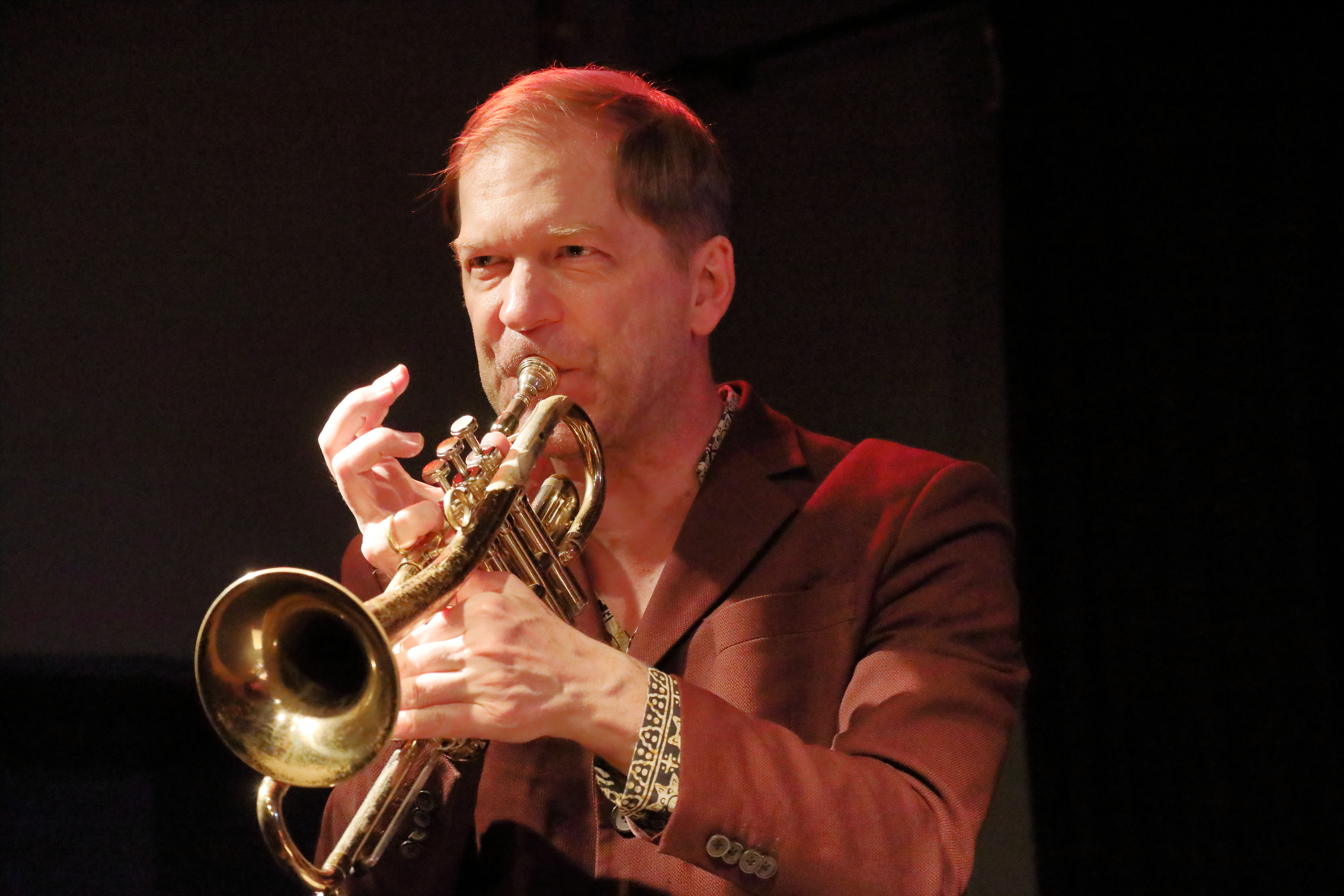 This evening at Club W71 "So Seet" are Sebastian Gramss (db), Etienne Nillesen (snare) and Axel Dörner (tr).